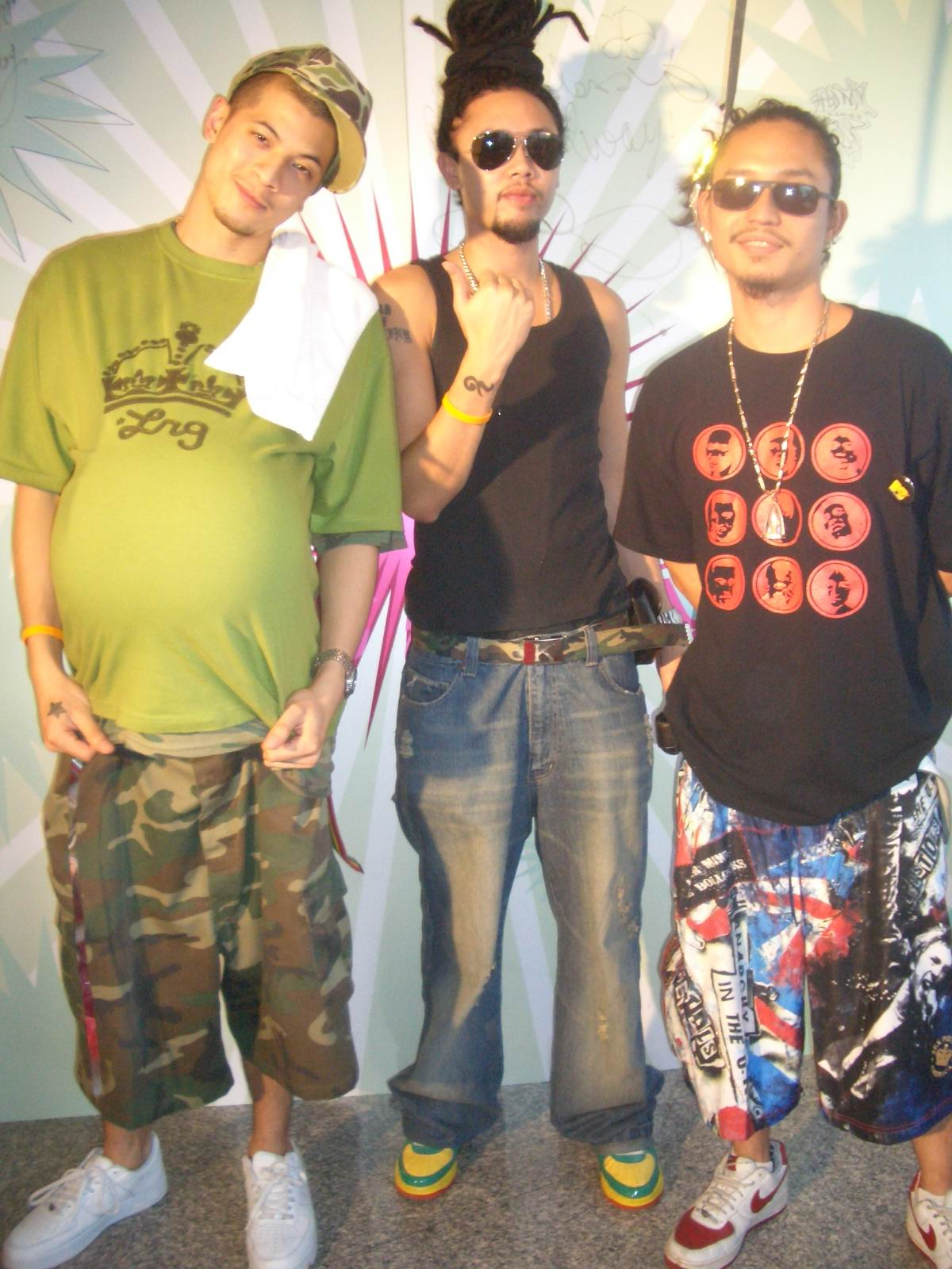 Thaitanium MTV 5th Anniversary